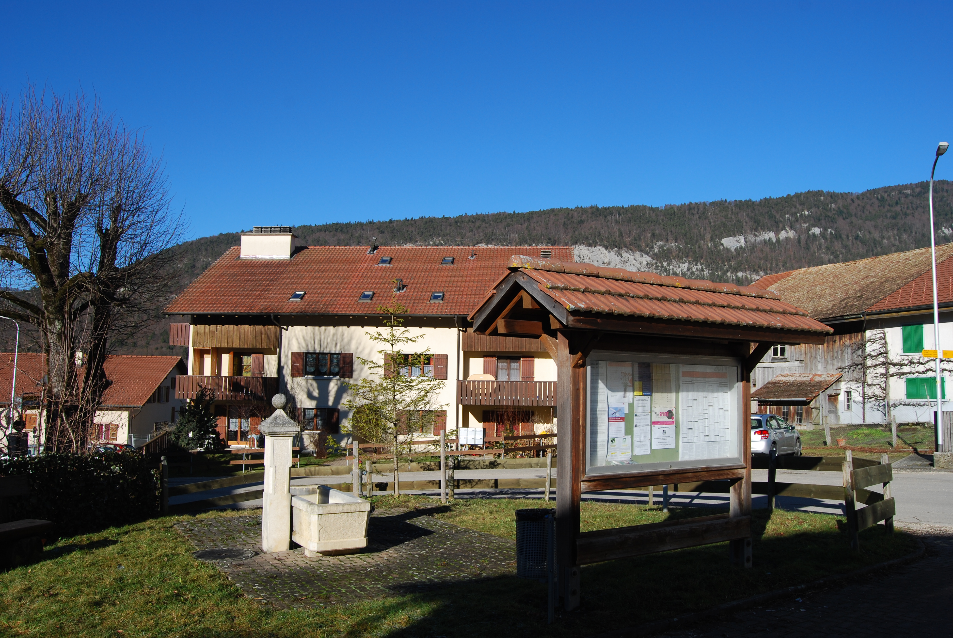 Village fountain at Eschert, canton of Bern, Switzerland